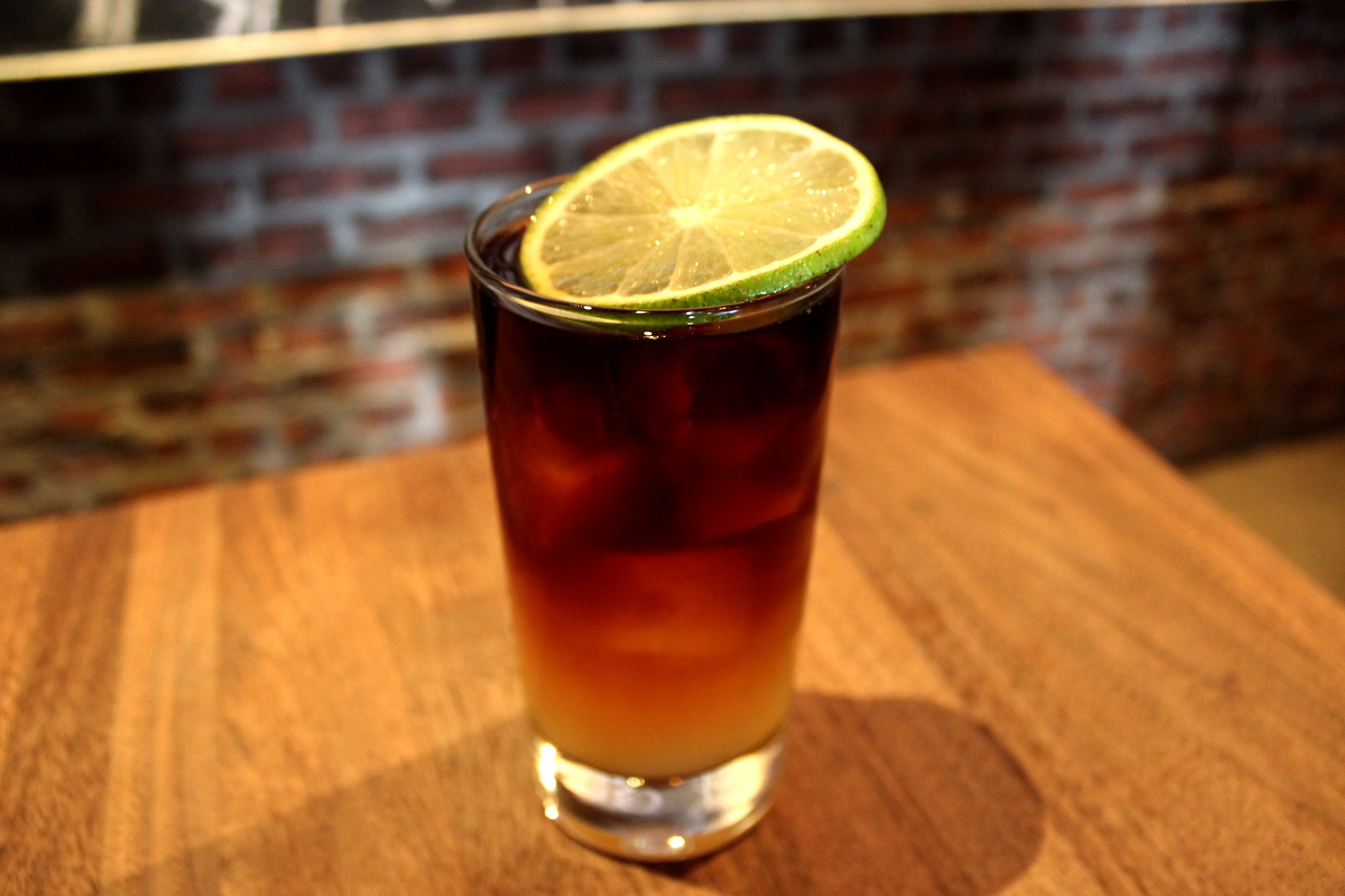 A Dark 'N' Stormy served at Rye in San Francisco, California.